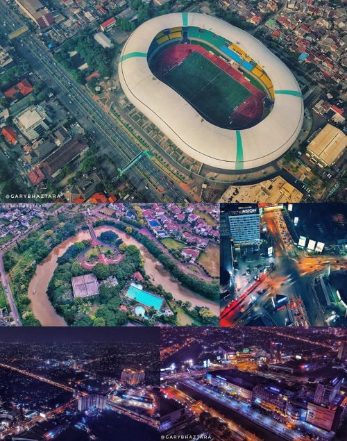 The Patriot Chandrabhaga Stadium is a multi-purpose stadium located in Bekasi, West Java, Indonesia. It is currently used mostly for football matches. The stadium holds 30,000 people.